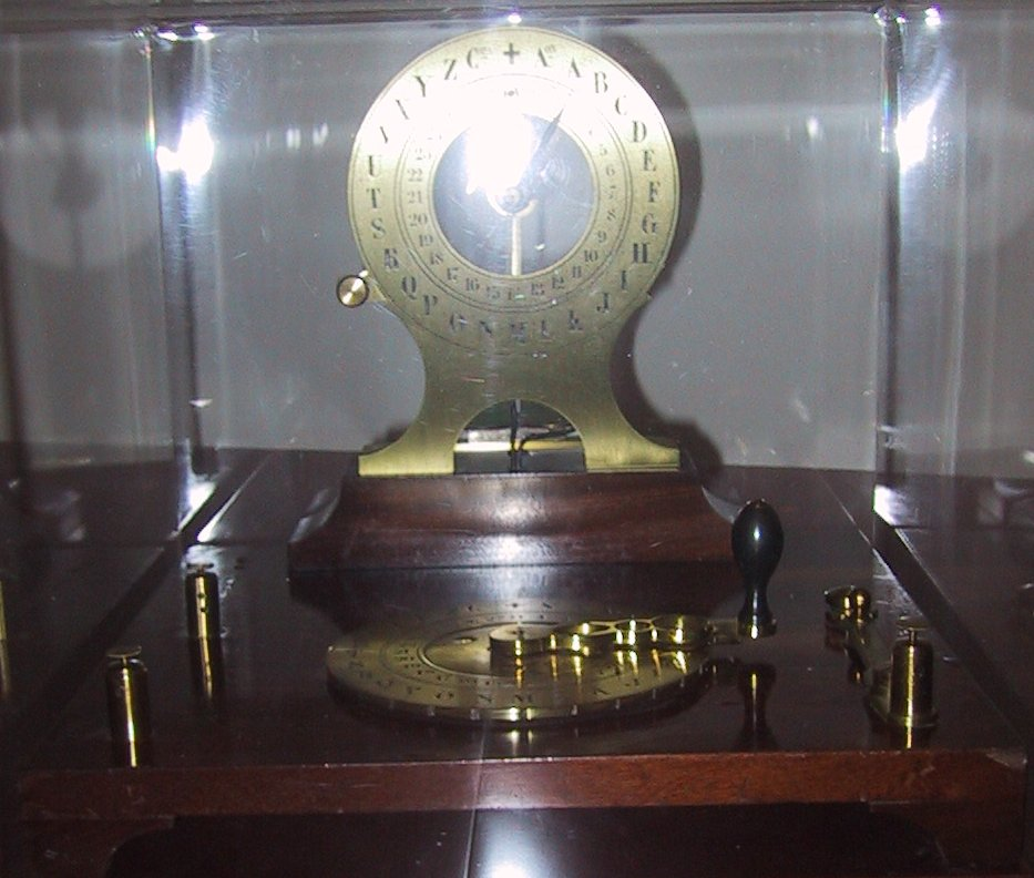 Breguet telegraph (1844)